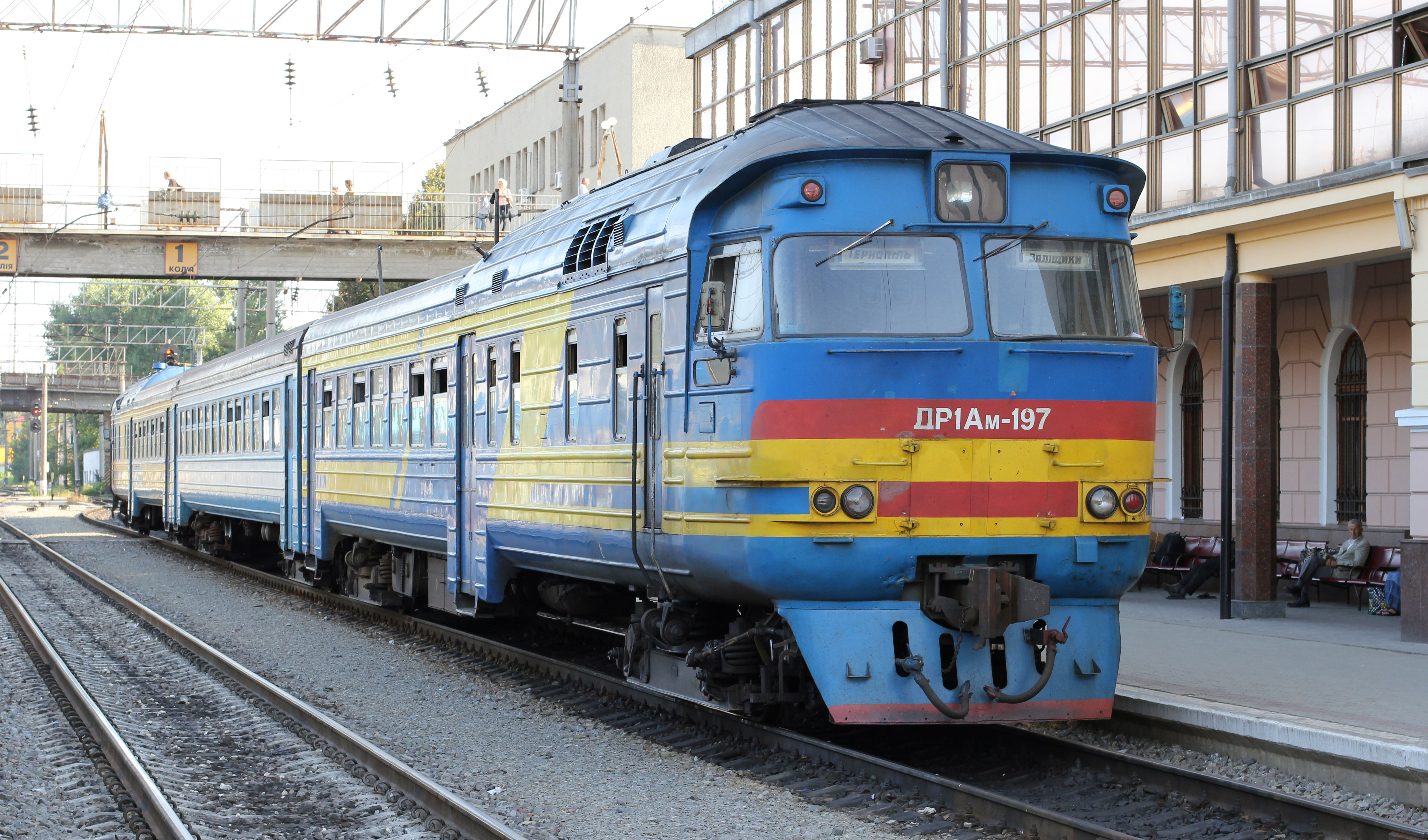 Diesel multiple units (trainset) DR1Am-197 in Ternopil railway station.